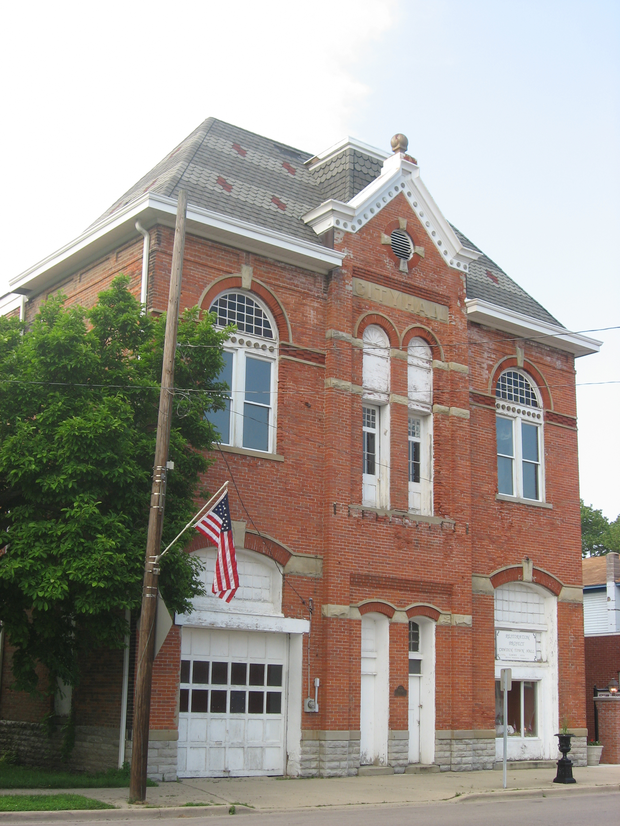 Front and western side of the Camden City Hall and Opera House, located at 54 W. Central Avenue (State Route 725) in Camden, Ohio, United States. Built in 1889, it is listed on the National Register of Historic Places.